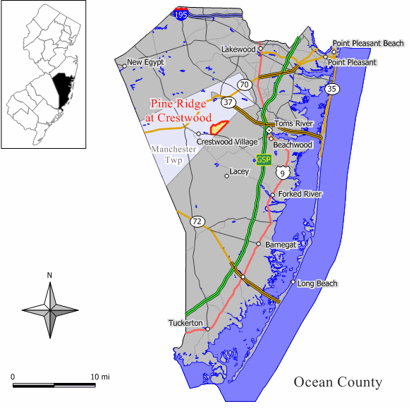 Source: Jim Irwin Original work by Jim Irwin, December 2005.